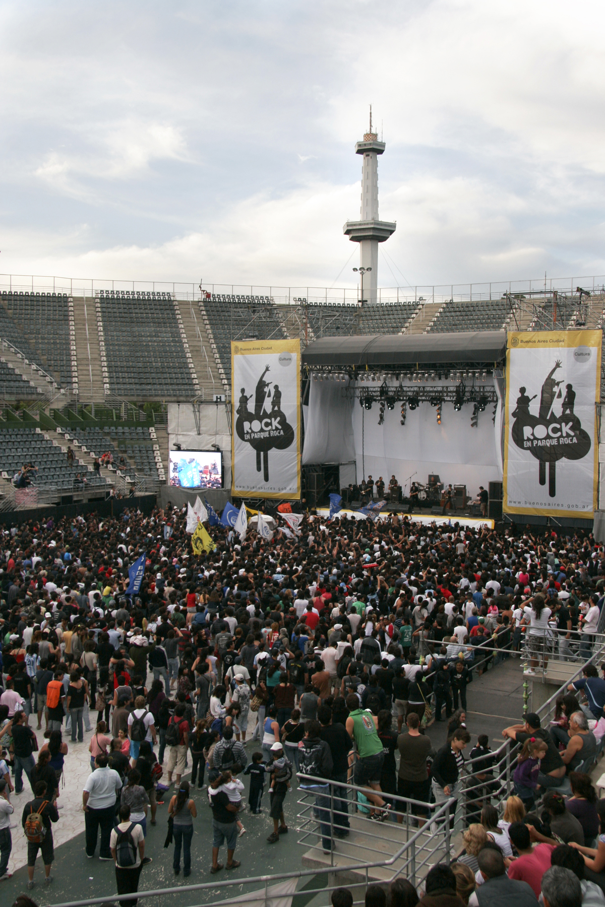 "Rock en Parque Roca," a city-sponsored music festival in November 2010 at the Mary Terán de Weiss Stadium, Parque Roca, Buenos Aires. Photo: Estrella Herrera.